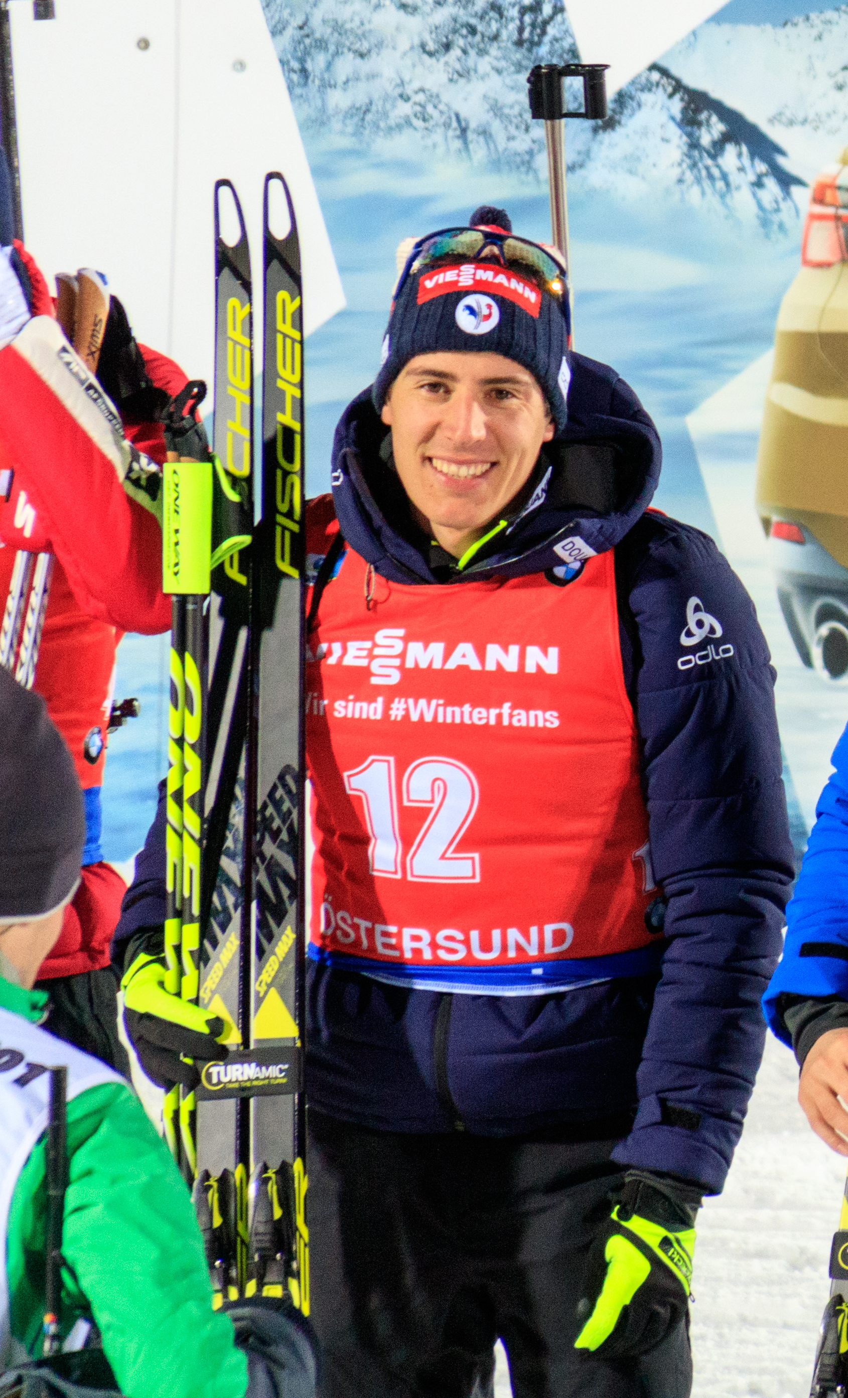 Quentin Fillon Maillet after the pursuit at Worldcup in Östersund 2017